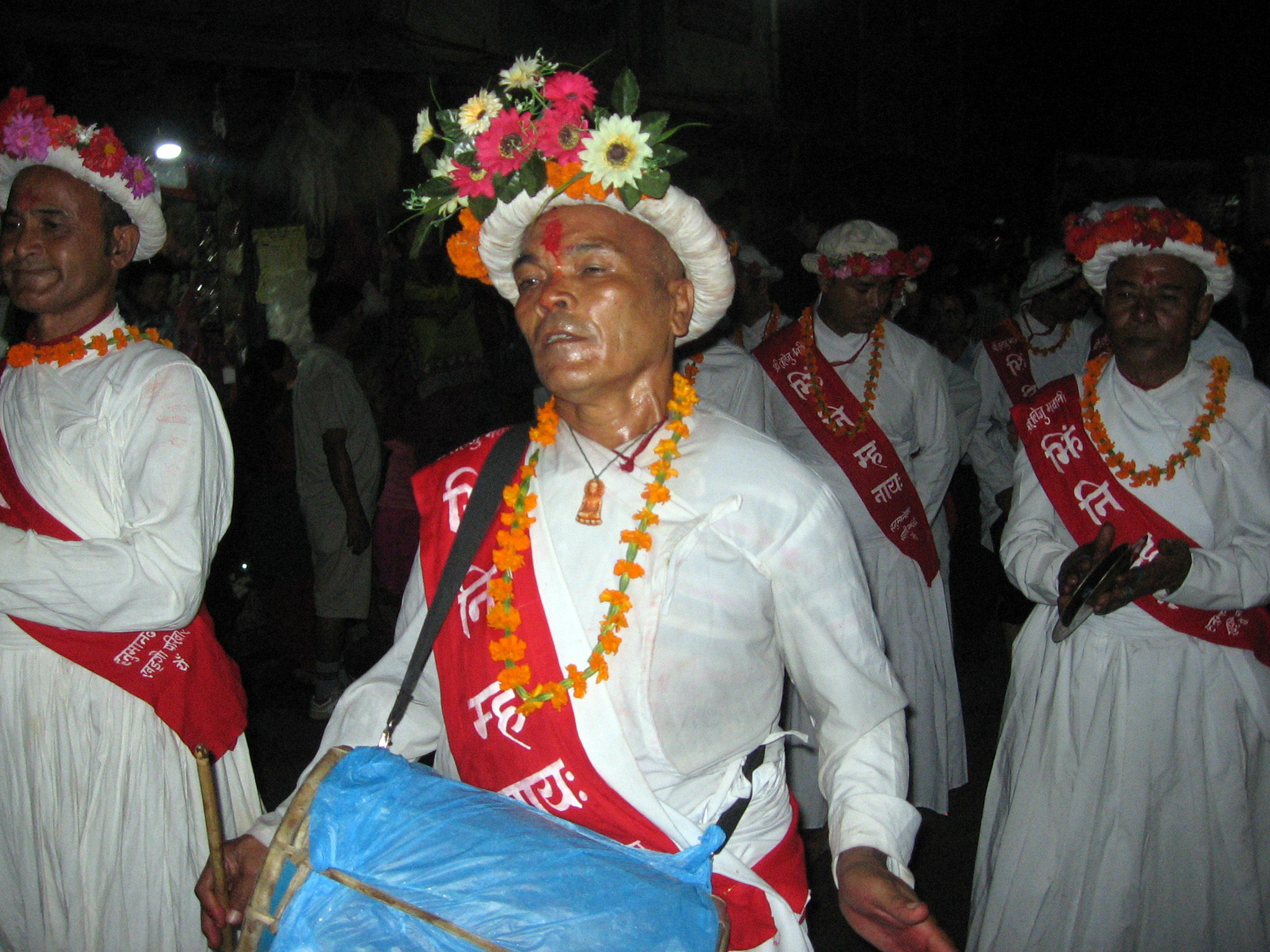 Naykhin musicians in ceremonial gowns lead the chariot procession of Kumati Jatra in Kathmandu, Nepal.